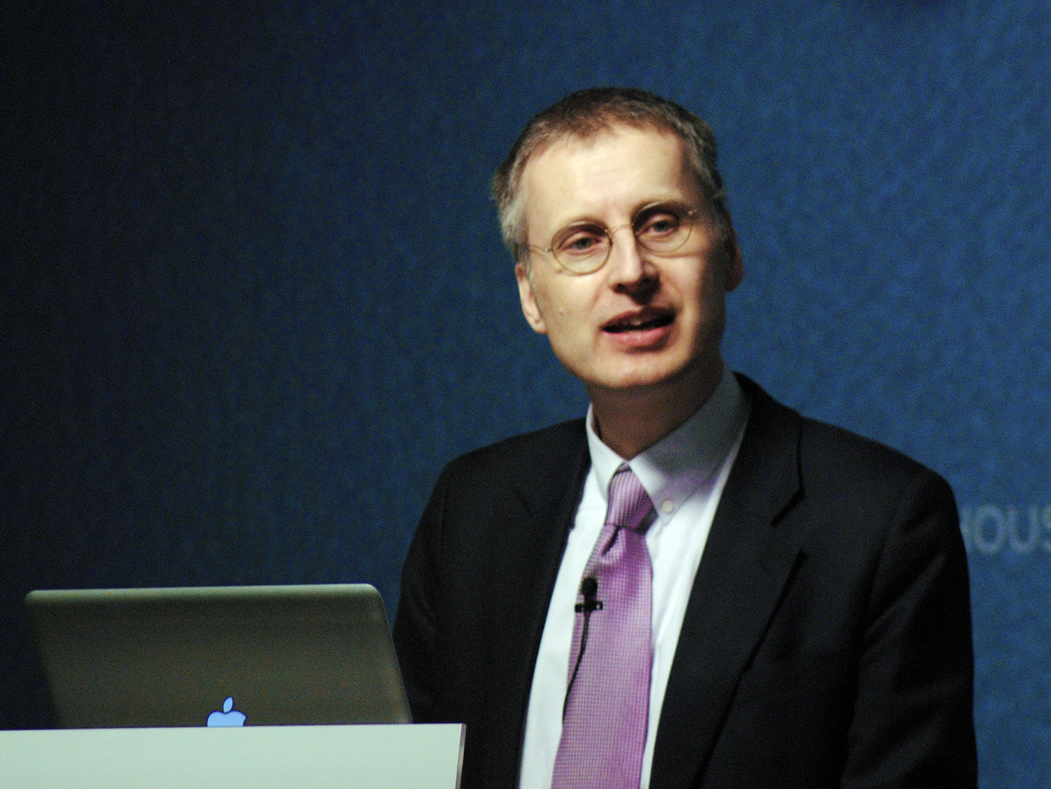 Viktor Mayer-Schönberger, Professor of Internet Governance and Regulation, Oxford Internet Institute